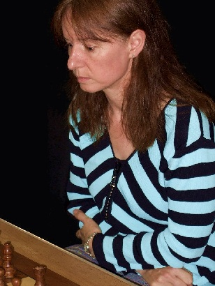 Susan Lalic - round 10 British Chess Championship 2011